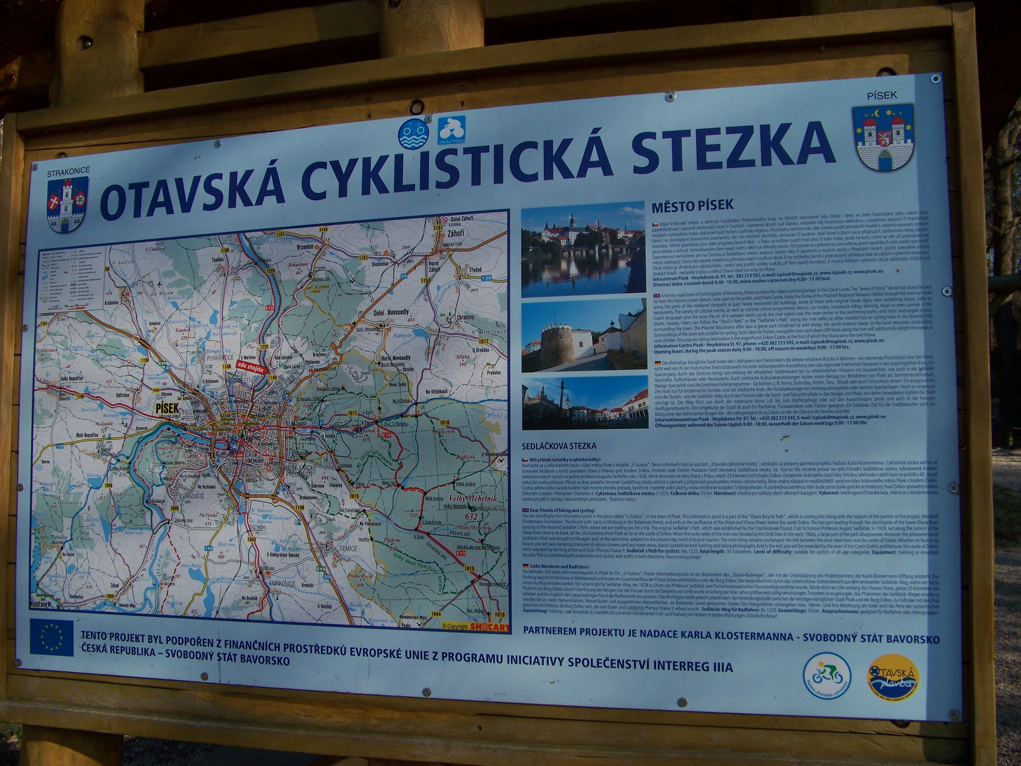 Písek-Budějovické Předměstí, Písek District, South Bohemian Region, the Czech Republic. Otava Cycle Path, a board at U Sulana restaurant.